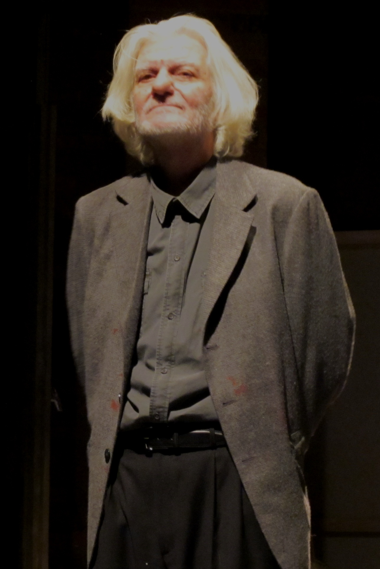 Turkish actor Nihat İleri (2012)